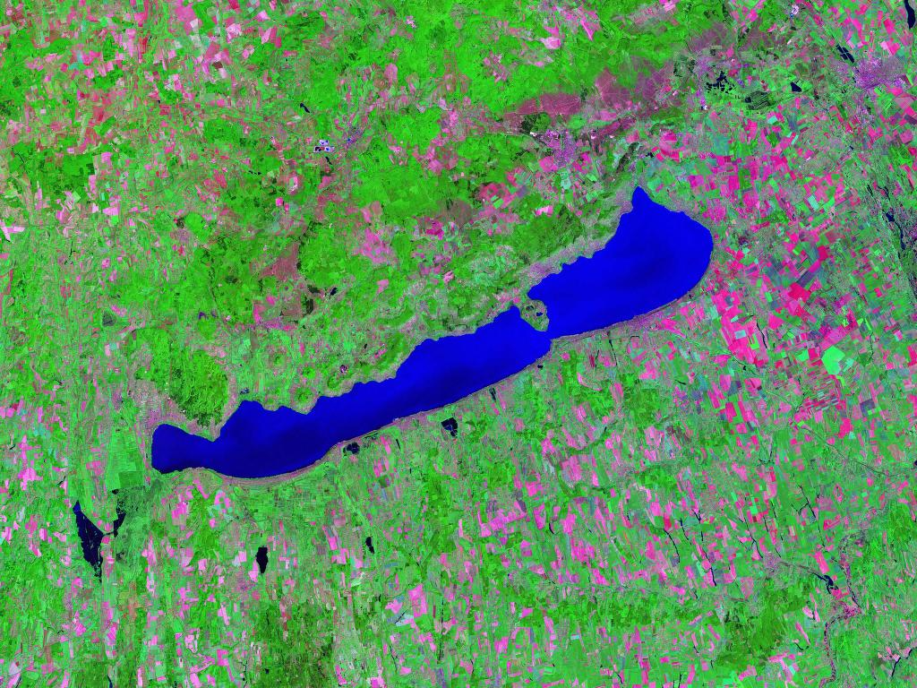 Lake Balaton, Hungary - Landsat satellite photo